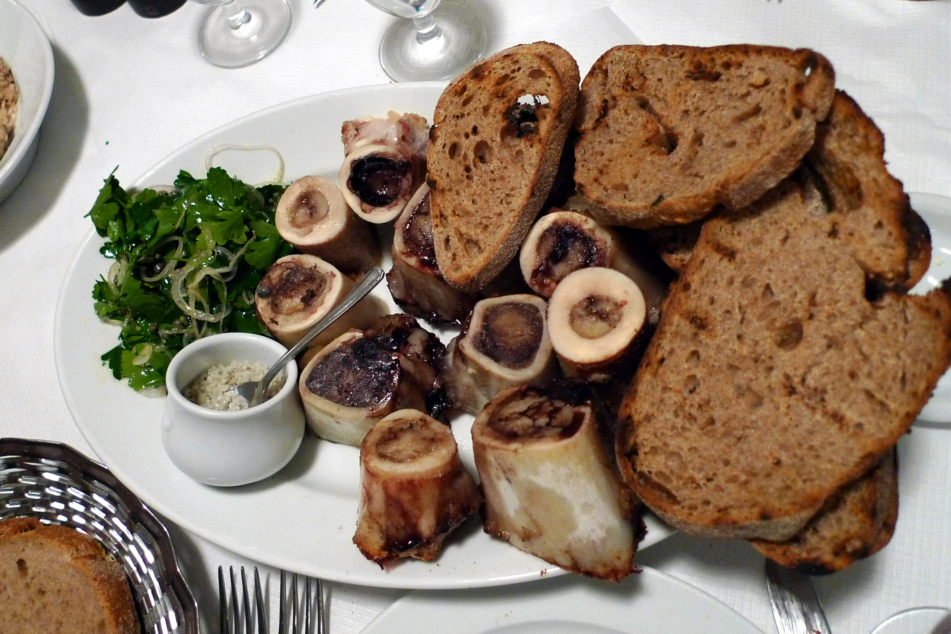 The roast bone marrow with parsley salad (and salt), their signature dish, presented here on a large plate for the feasting menu. At St John Restaurant, St John Street.